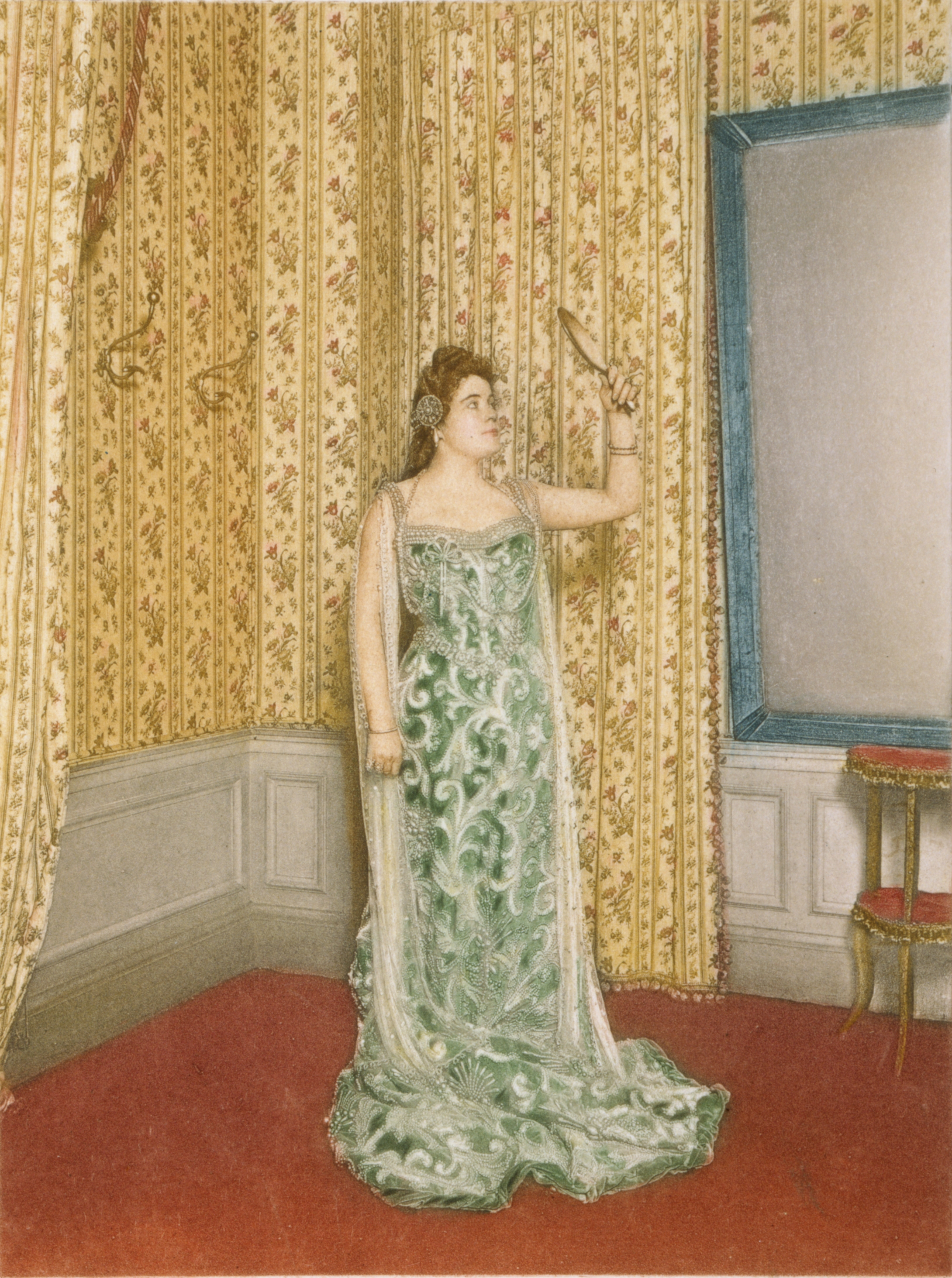 Sibyl Sanderson, American opera soprano: aquatint, color